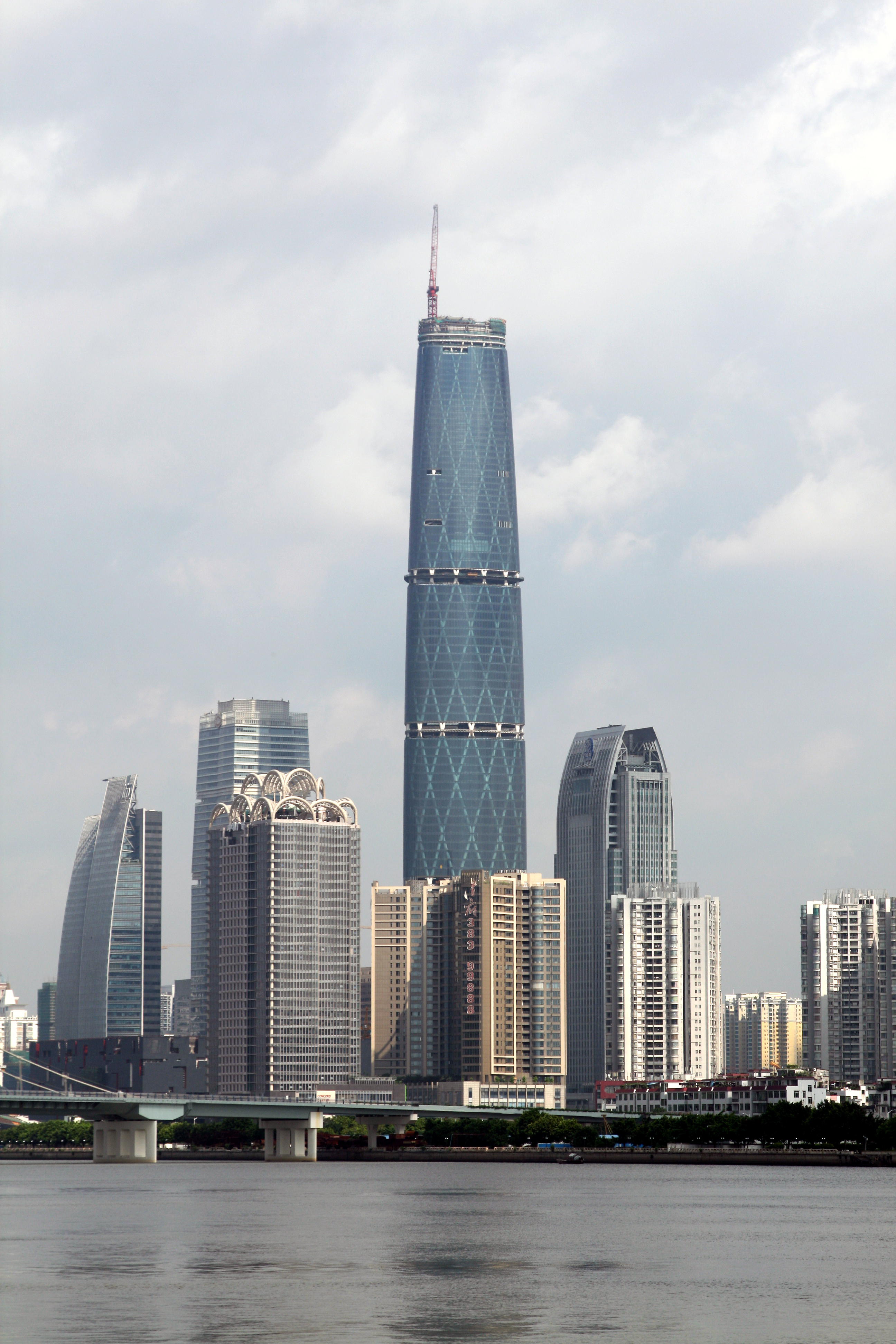 Zhujiang New Town 2009 中文（中国大陆）: 珠江新城商务区